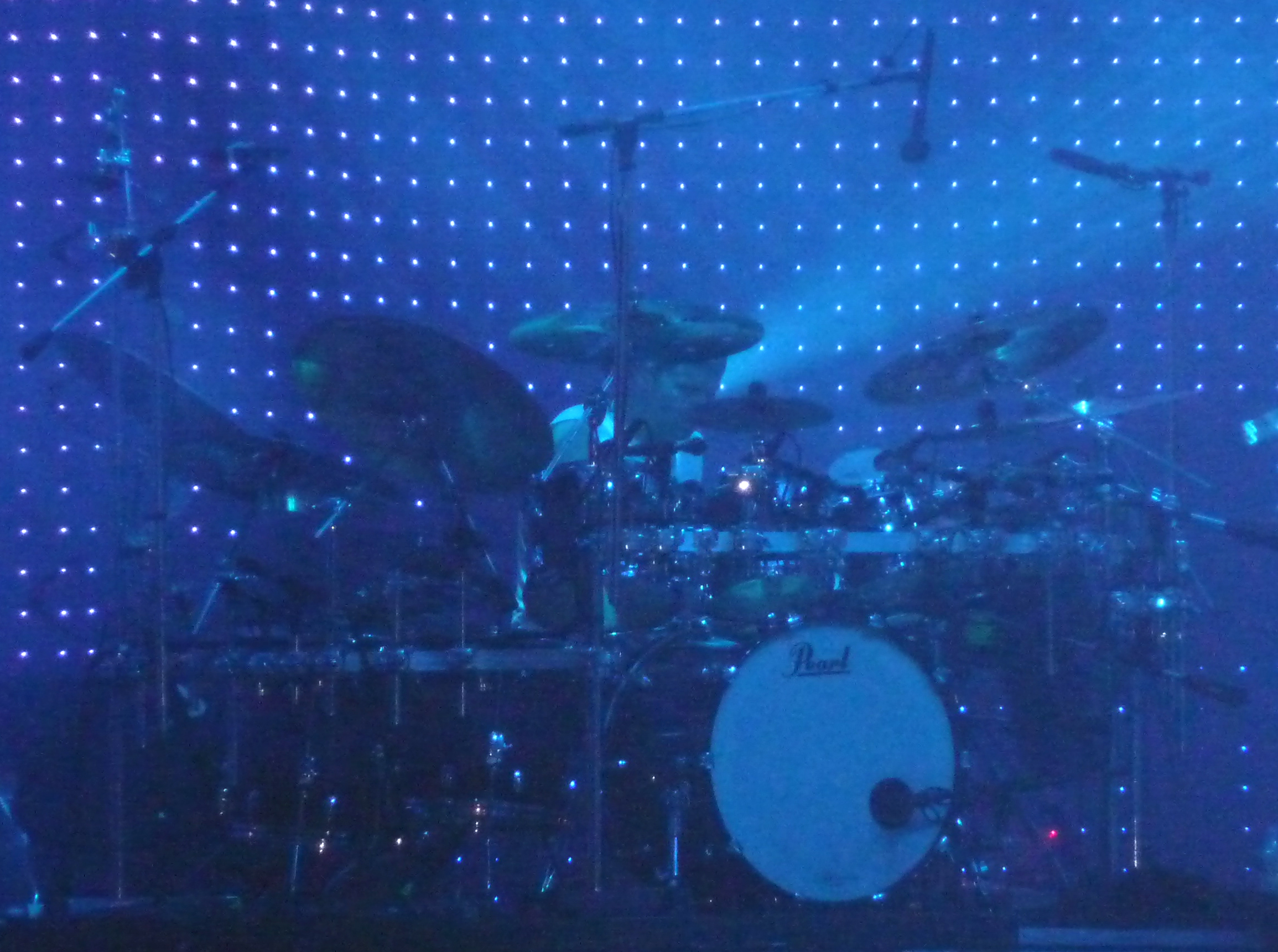 Chad Sexton of 311 playing at a concert at the USANA Amphitheatre in Salt Lake City, Utah as a part of their 2009 Summer Unity Tour.